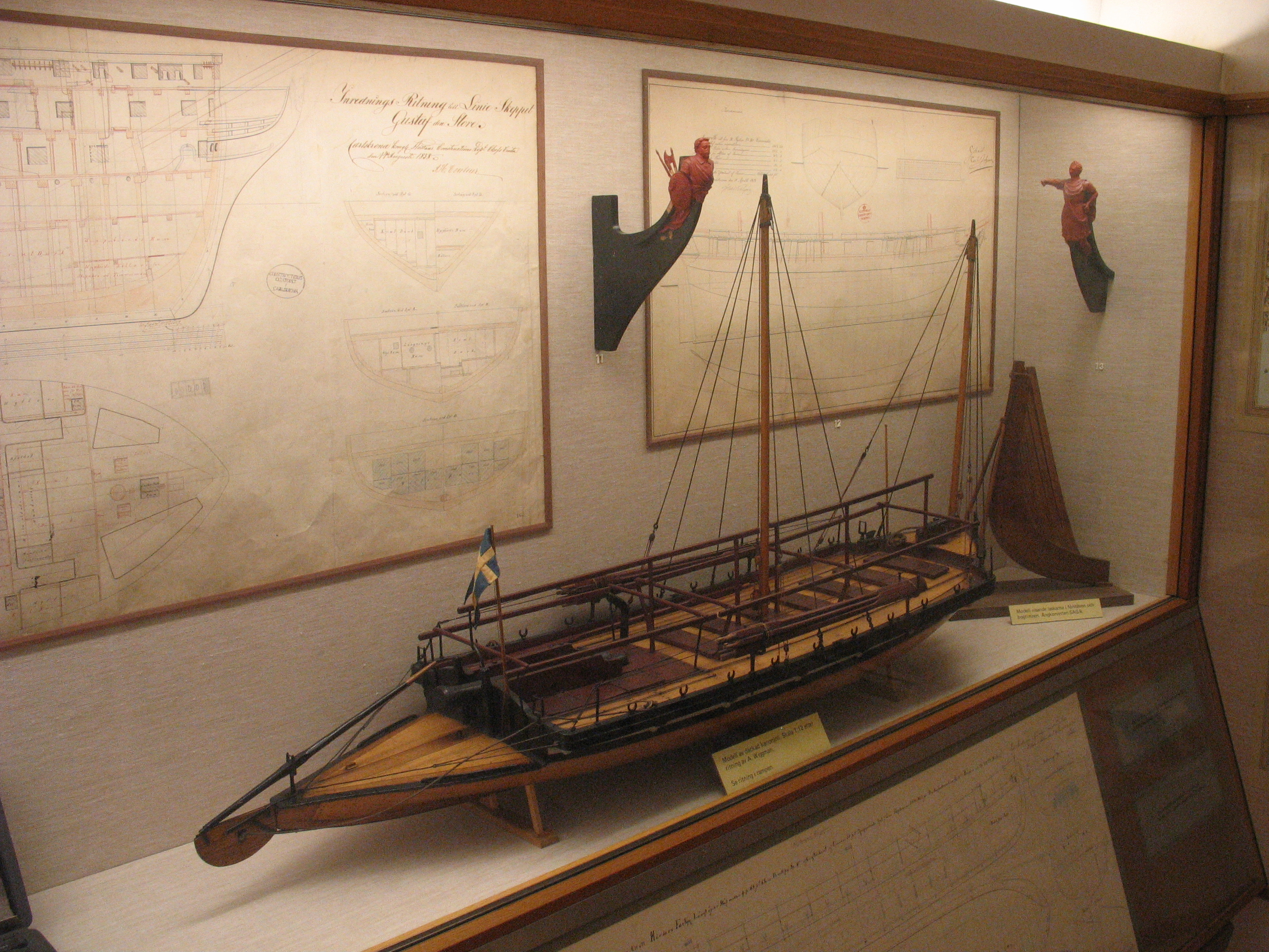 Model of a kanonjolle ("gun yawl") at the Maritime Museum in Stockholm. Scale 1:12.